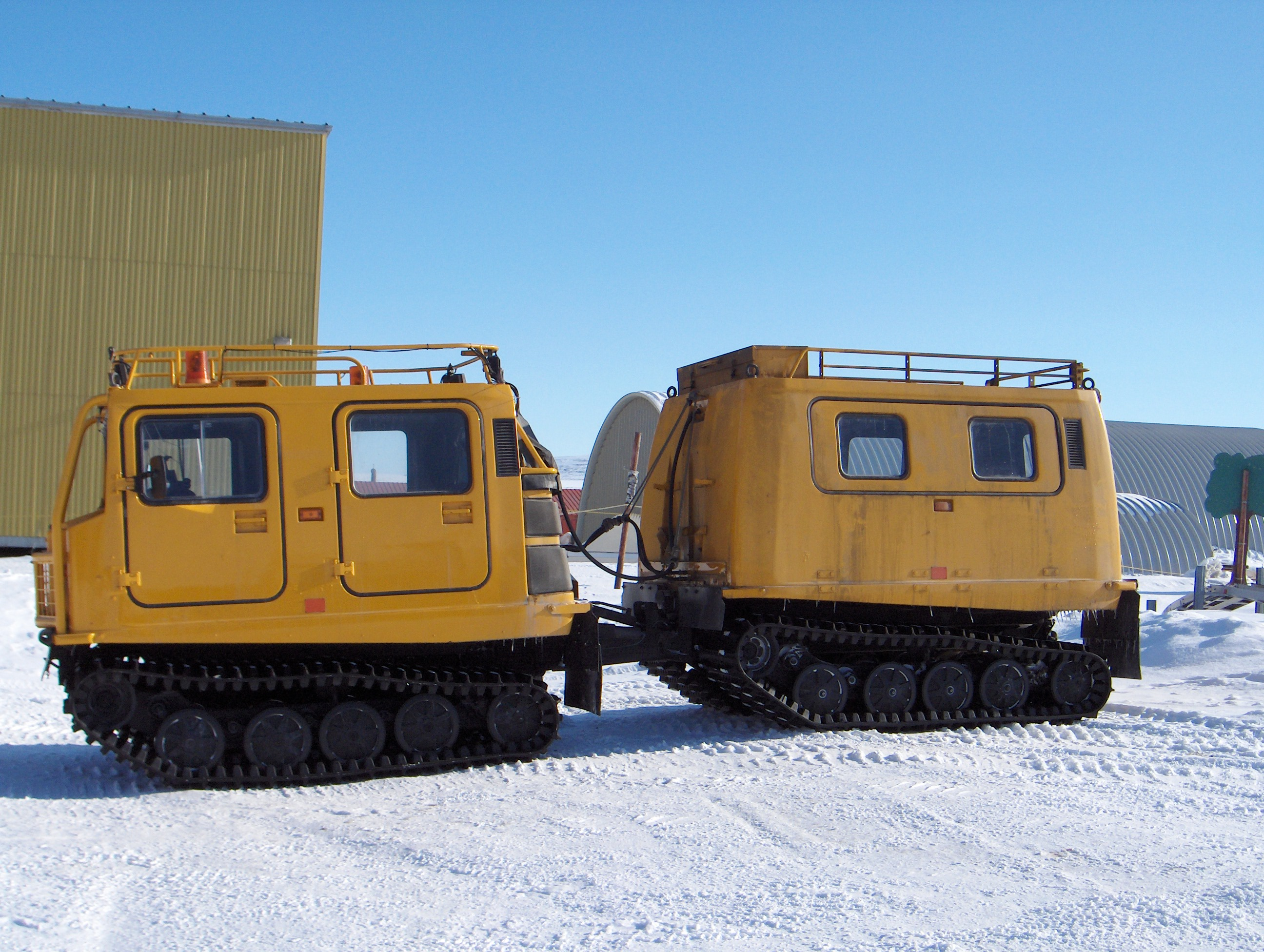 One of several BV-206 type vehicles used in the ongoing support and maintenance of operations at CFS Alert.